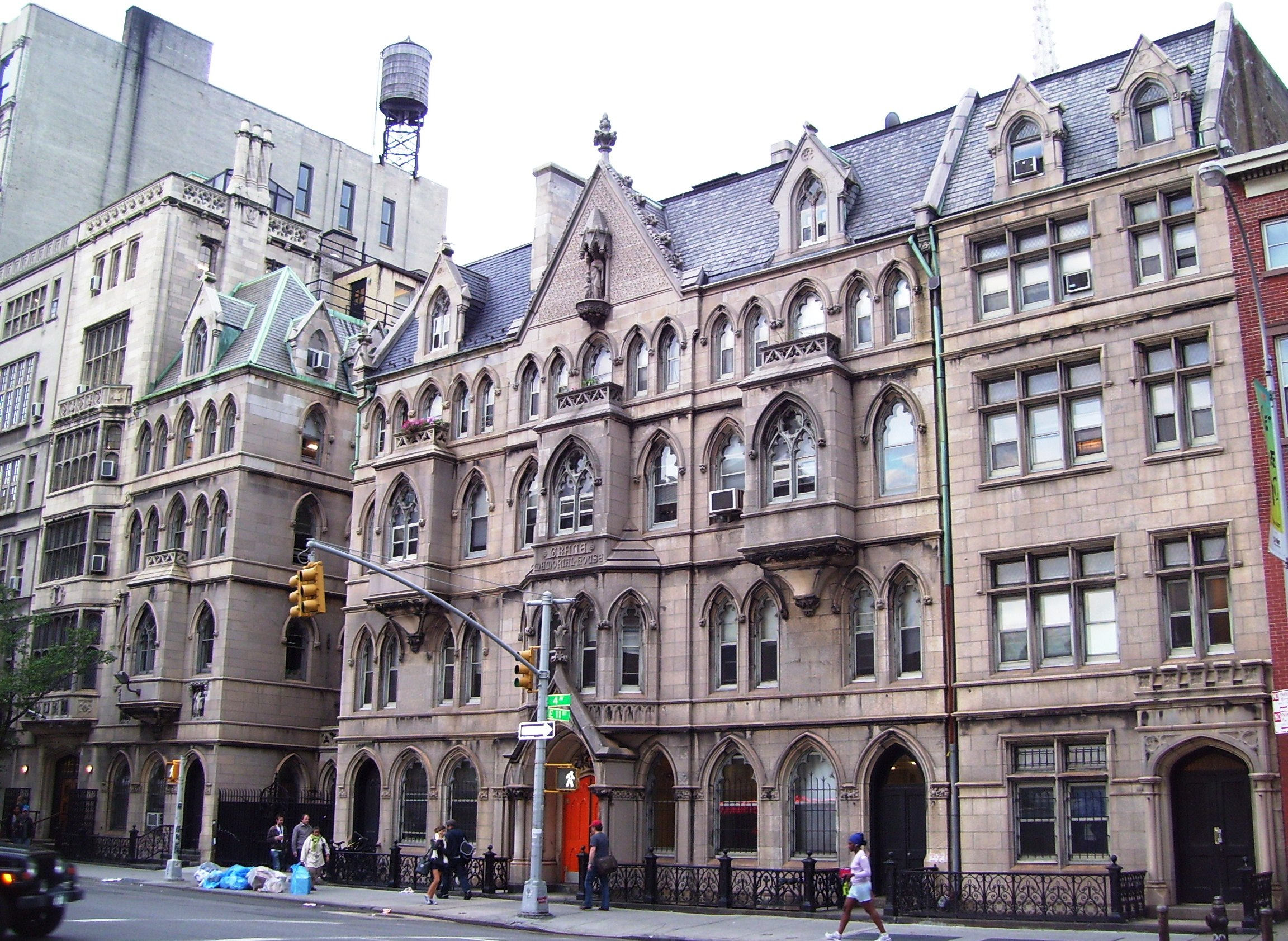 The church houses of Grace Church on Fourth Avenue at 11th Street in Greenwich Village near Astor Place, Manhattan, New York City. The center three bays are Grace Memorial House/Huntington House (1881-1882, James Renwick Jr.), on the left is Clergy House (1902-1903, Heins & La Farge), and on the right Neighborhood House (1906-1907, Renwich, Aspinwall & Tucker). To the far left can be seen a bit of the main buildings of Grace Church School, which also utilizes the church houses. (Source: Guide to NYC Landmarks (4th ed.) and AIA Guide to NYC (4th ed.))